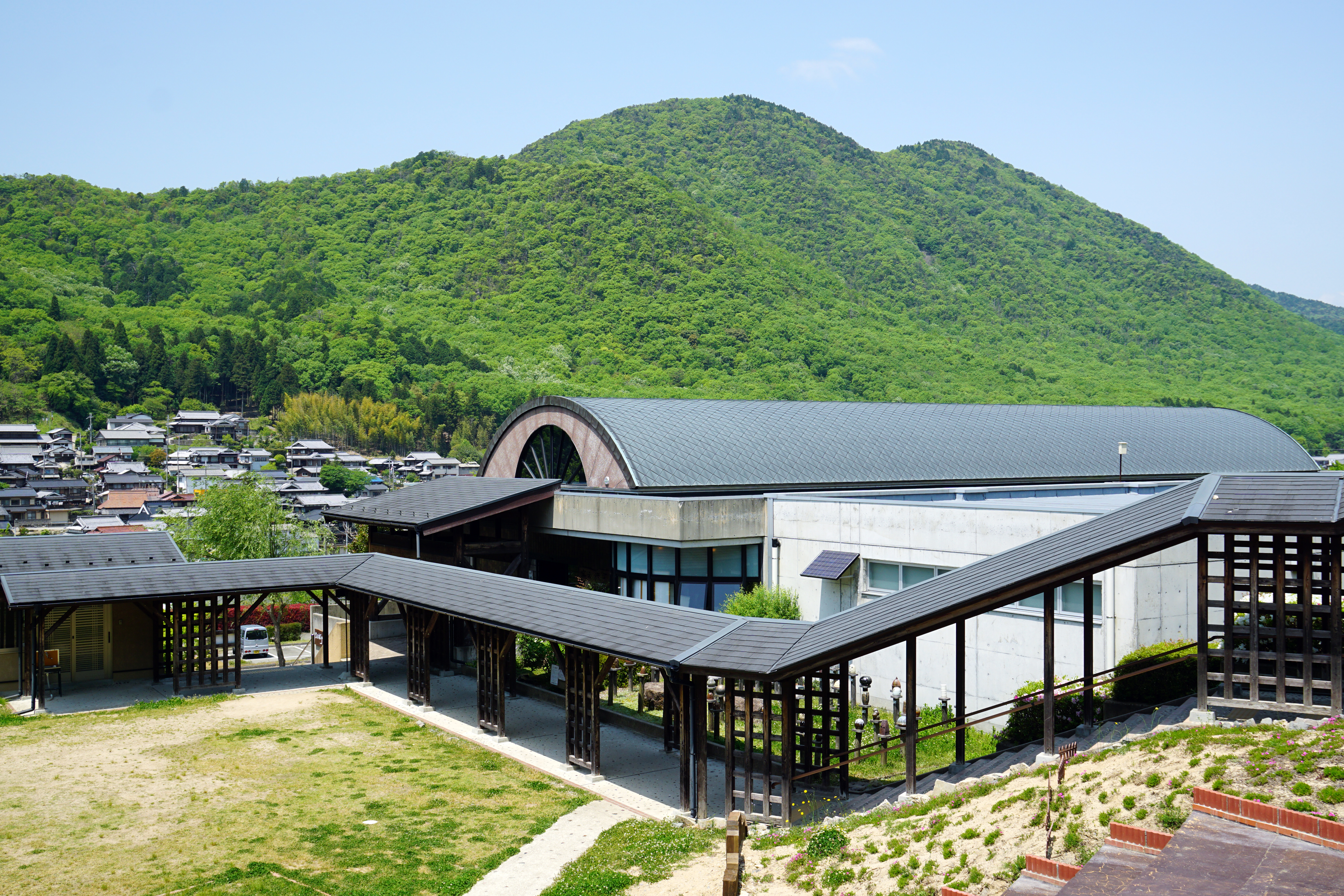 Tamba Traditional Art Craft Park Sue no Sato in Sasayama, Hyogo prefecture, Japan.